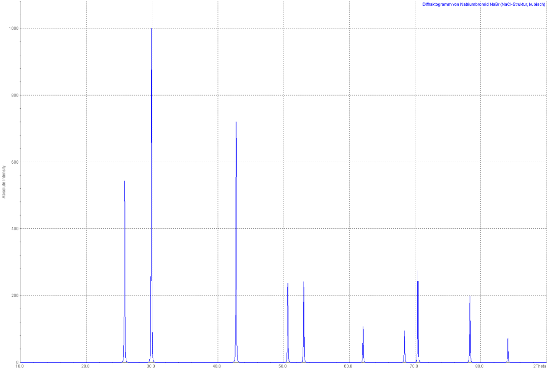 Diffractogram of sodium bromide NaBr (Cu-Kalpha)